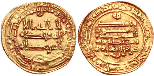 ISLAMIC, Egypt & Syria (Pre-Fatimid). Tulunids. Harun bin Khumarawaih. AH 283-292 / AD 896-904. AV Dinar (21mm, 3.86 g, 12h). Halab mint. Dated AH 284 (AD 896/7). Grabar –; SICA 6, –; AGC I –; Qatar Museum II 2328 (same dies); Album 667. Good VF. Extremely rare, perhaps only the second or third known with this mint and date.